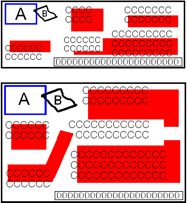 This is an example of the format layout for the comic strip You Can With Beakman and Jax. It shows the strip and tab formats. A = logo, B = question, C = text, D = inverted text, red boxes indicate background illustrations. This is an image I made based on the same comic presented in two different formats.